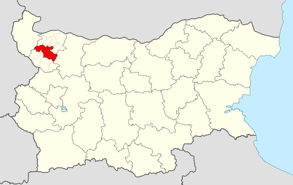 Location map of Montana Municipality within Bulgaria and Montana Province. Equirectangular projection, N/S stretching 130 %. Geographic limits of the map: N: 44.4° N S: 41.1° N W: 22.1° E E: 28.9° E